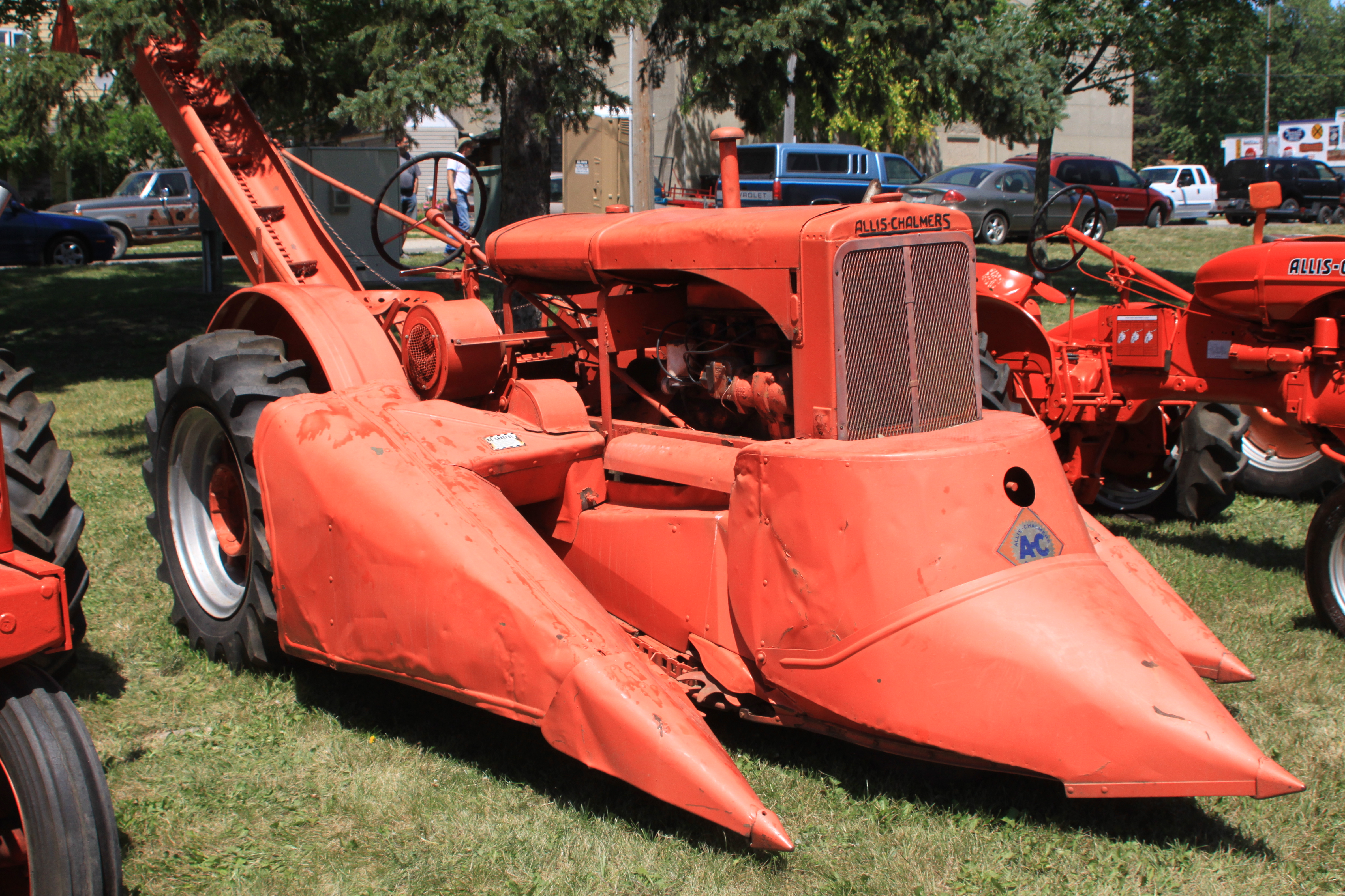 Two row field corn picker mounted on Allis-Chalmers tractor. These corn pickers were precursors to the modern combine and picked entire ears of corn loaded by the rear elevator into a trailing wagon.